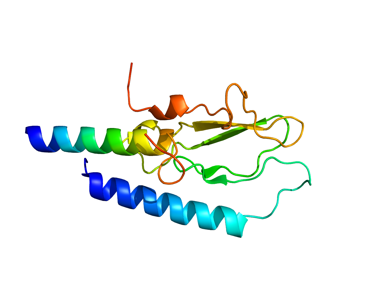 Structure of protein GLP1R.Based on PyMOL rendering of PDB 3C59.